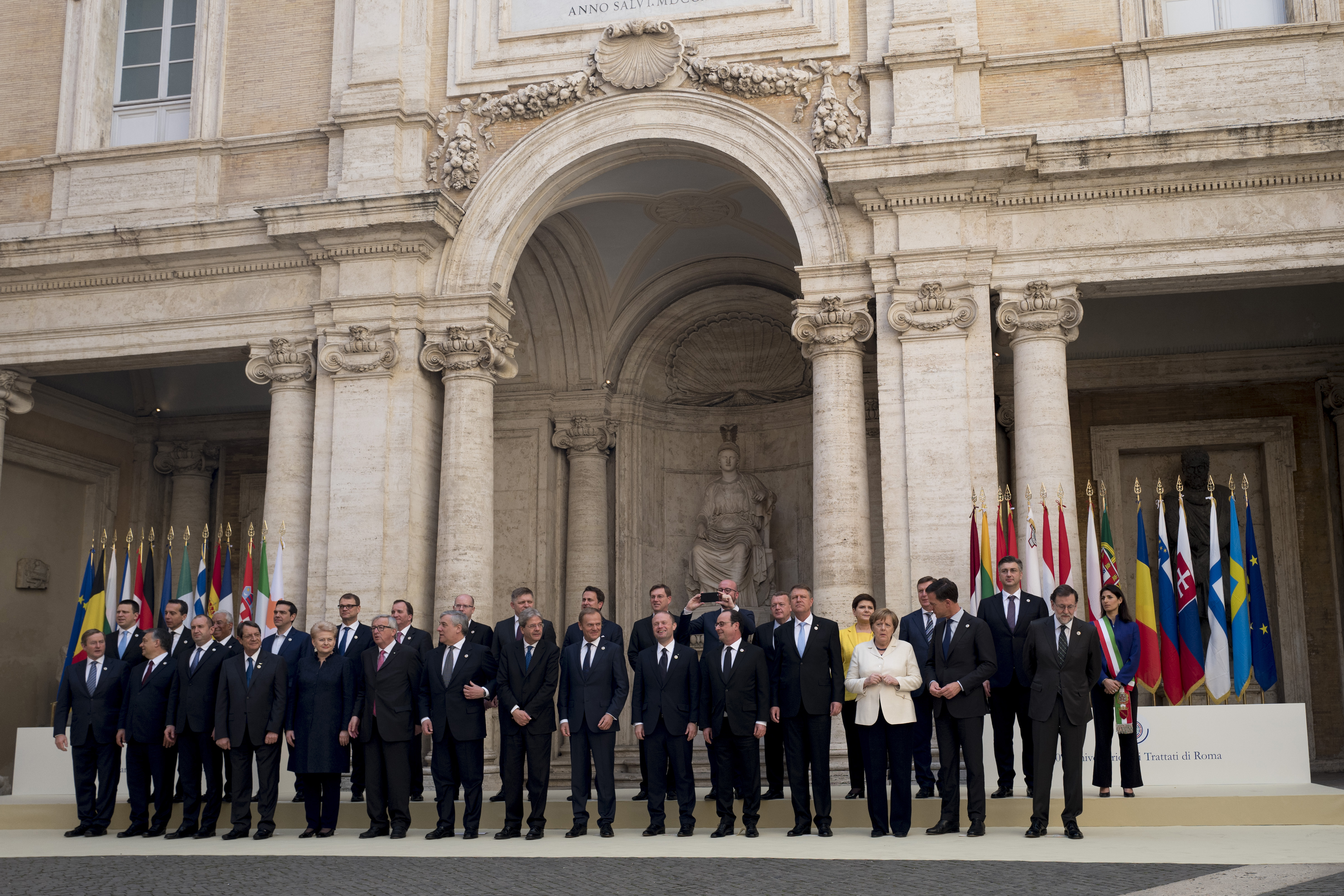 Group photograph of EU heads of government on occasion of the 60th anniversary of the Treaty of Rome in Rome